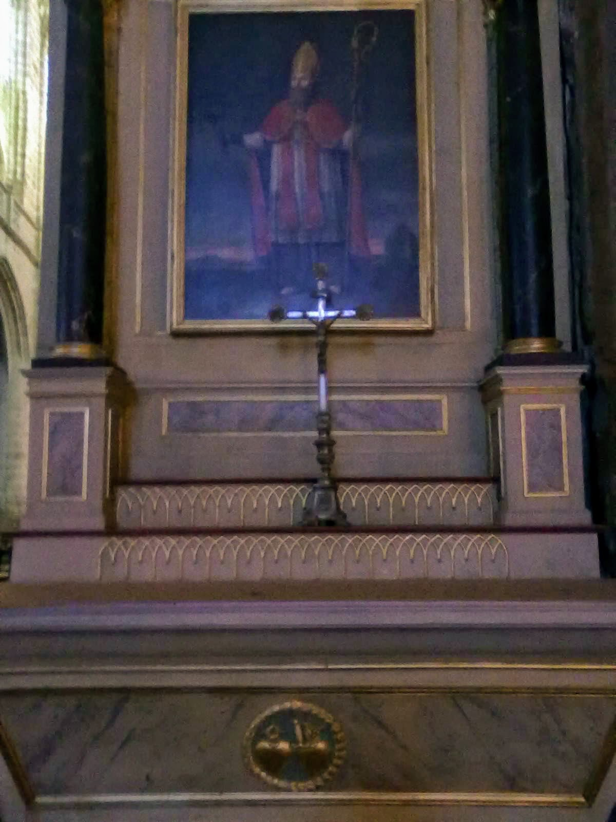 lower part